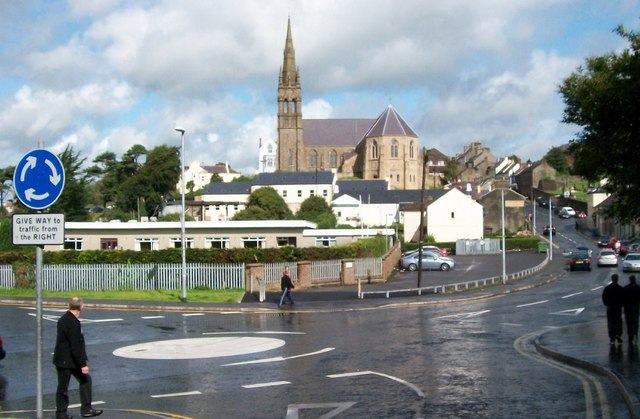 St Patrick's Roman Catholic Church from the bottom of Racecourse Hill The view is taken across Stream Street.